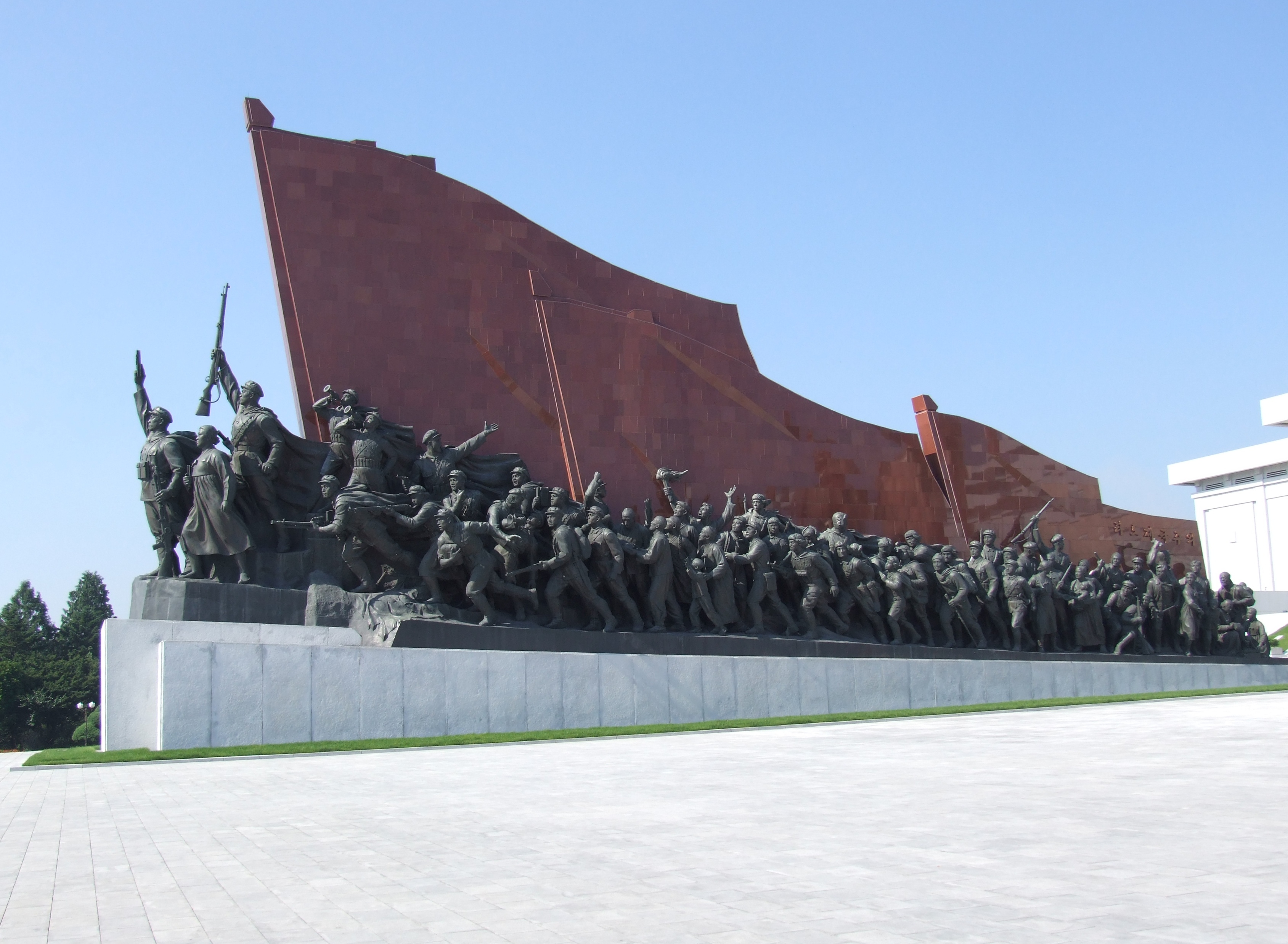 Mansudae Grand Monument